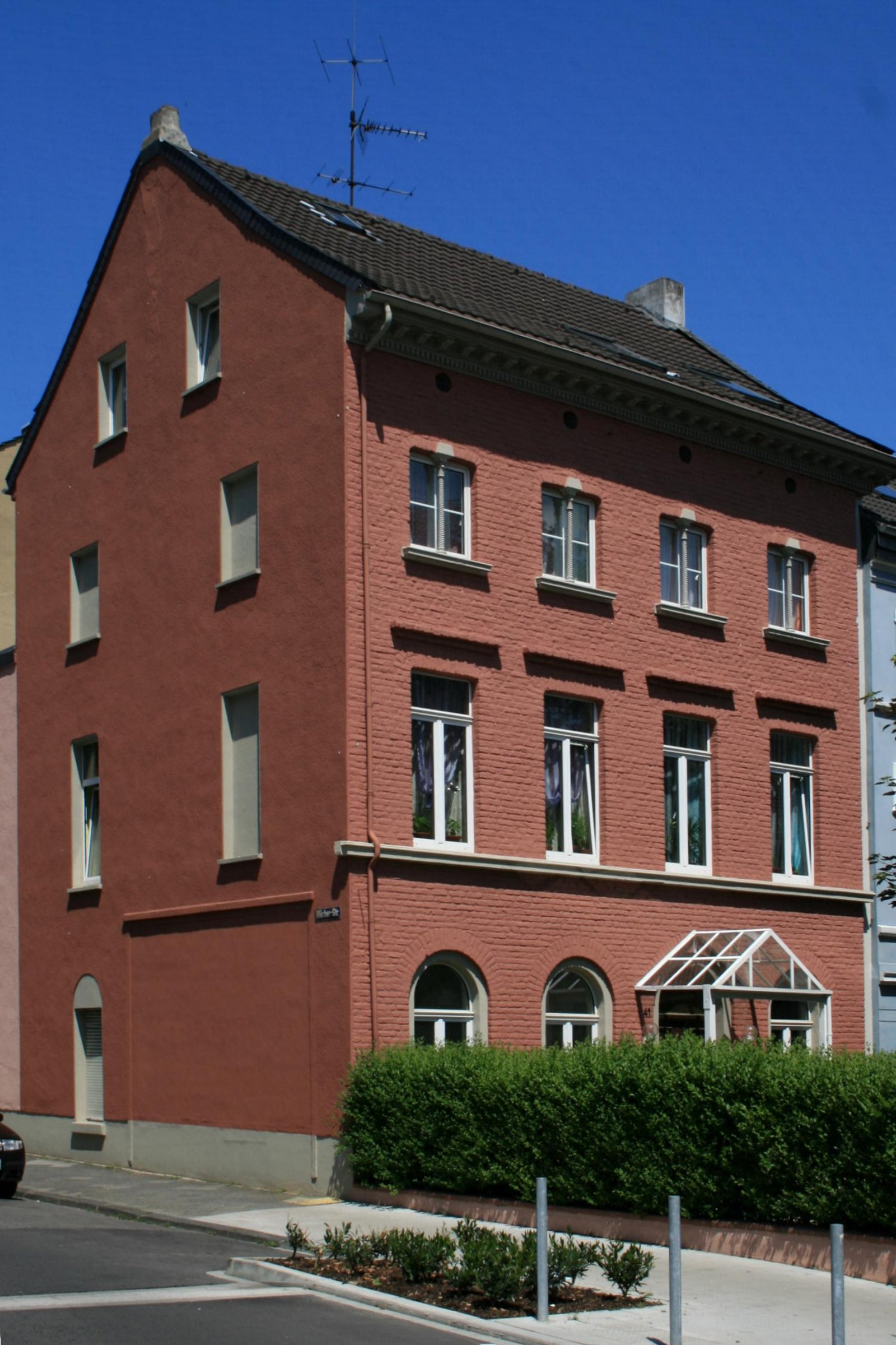 Cultural heritage monument No. R 030 in Mönchengladbach